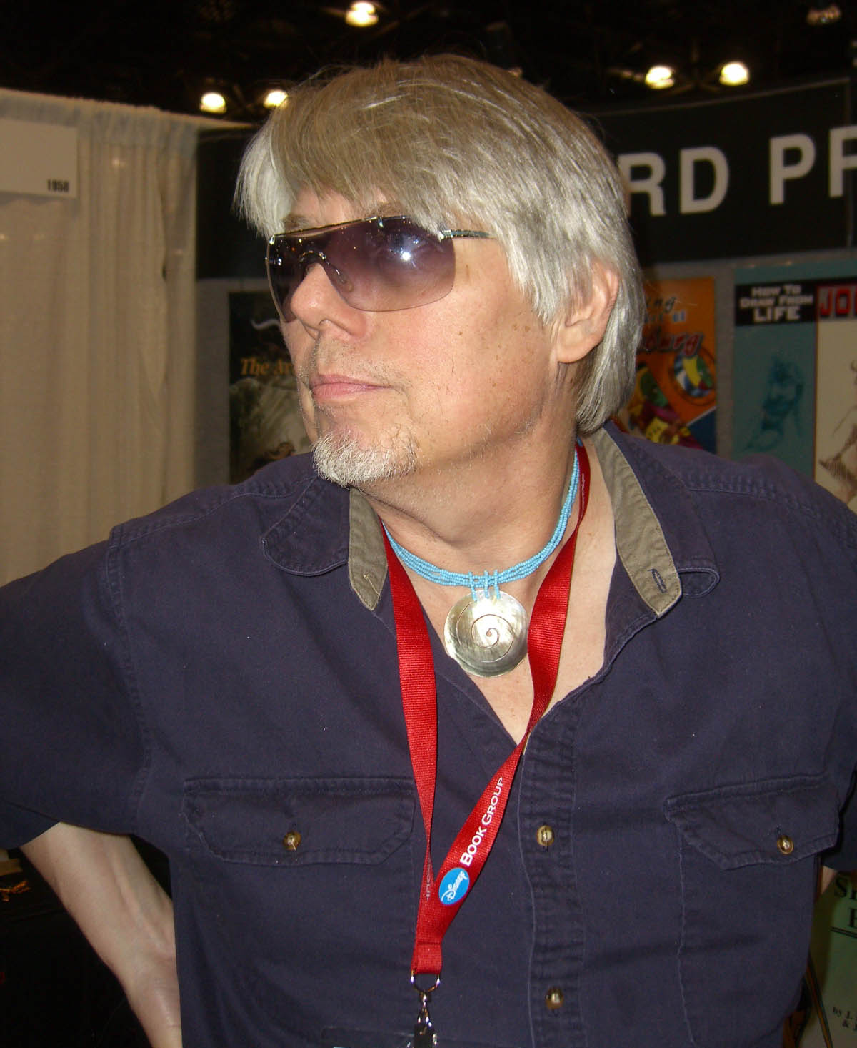 Comic book creator Frank Brunner at the New York Comic Convention in Manhattan.